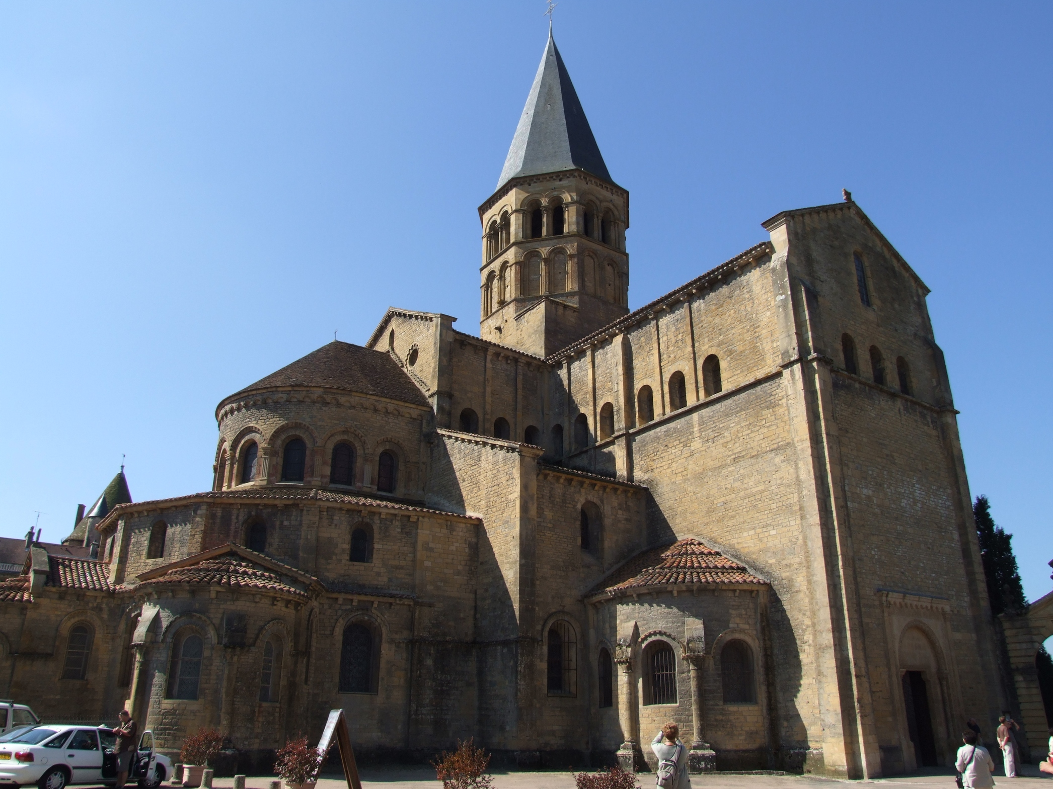 Basilique du Sacré-Coeur de Paray-le-Monial, FRANCE